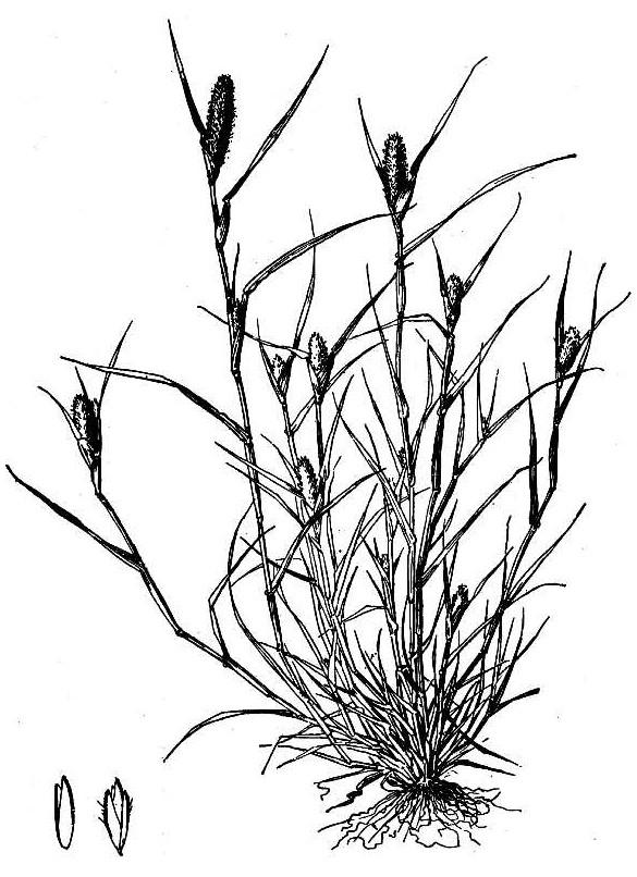 Crypsis alopecuroides syn. Heleochloa alopecuroides from Hitchcock, A.S. (rev. A. Chase). 1950. Manual of the grasses of the United States. USDA Miscellaneous Publication No. 200. Washington, DC.